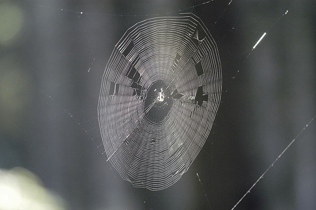 Araneus.diadematus web, from Commanster, Belgian High Ardennes .